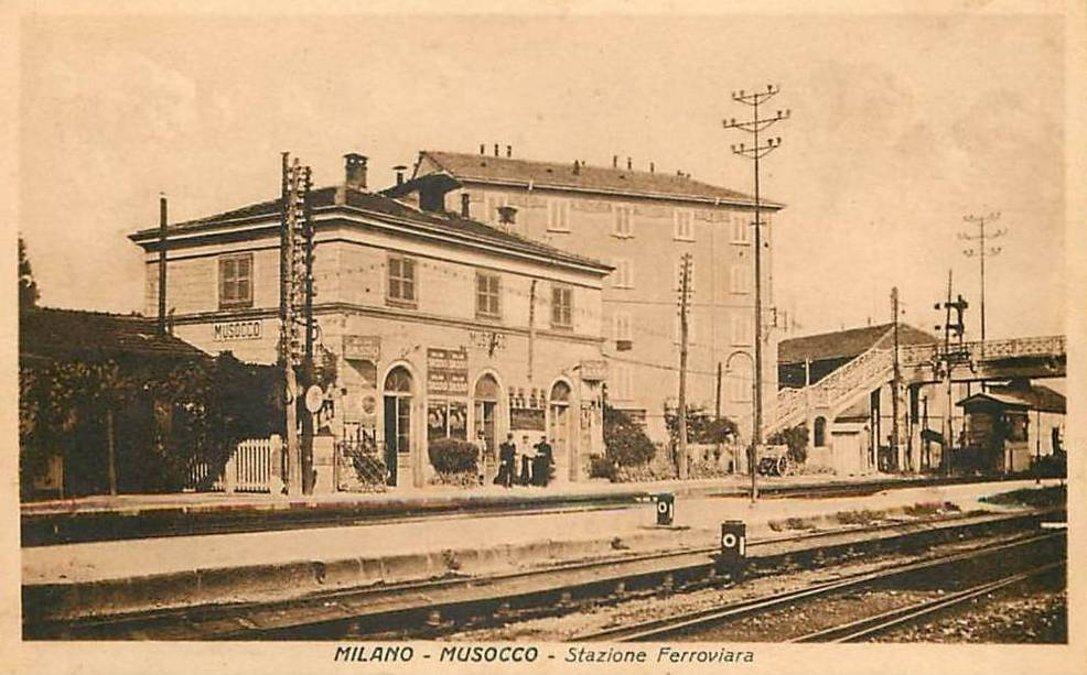 Railway station Musocco, nowadays Milano Certosa.